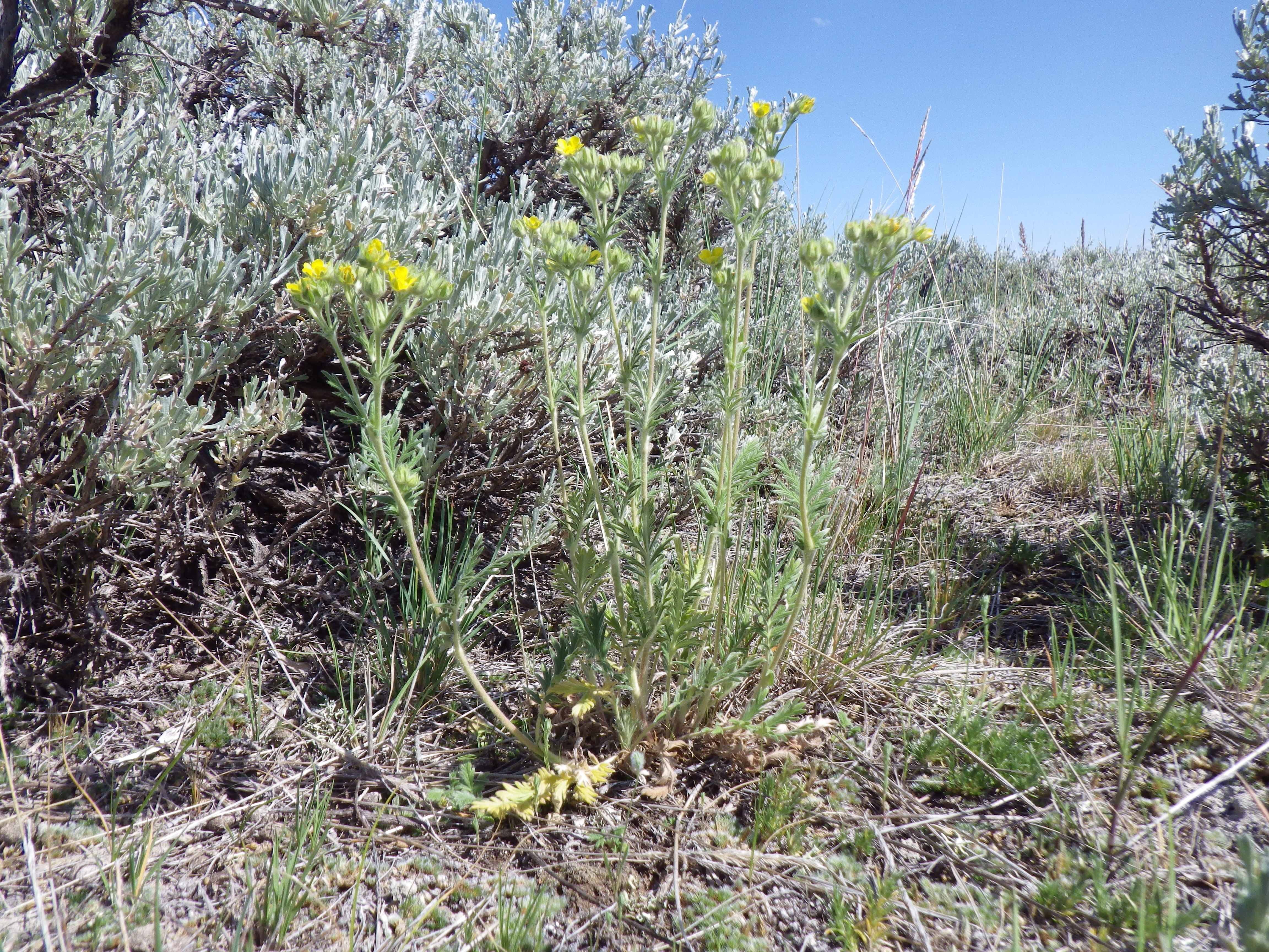 The pinnately compound leaves with tomentose under-surfaces and stiples that are highly dissected distinguish this perennial cinquefoil that is common to open arid settings such as in the sagebrush steppe.